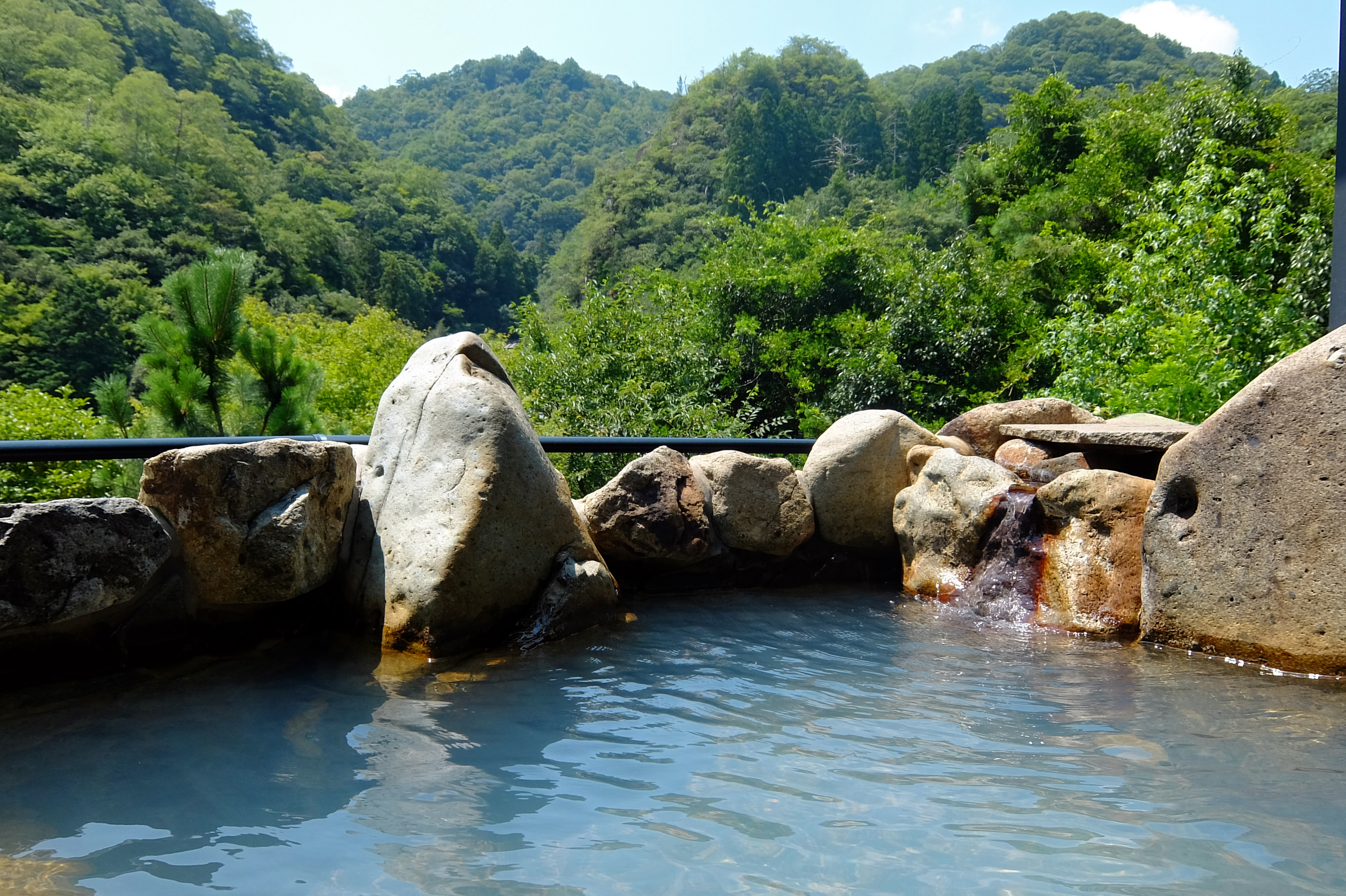 At Koyokan Bettei Azare in Takedao Onsen, Takarazuka, Hyogo prefecture, Japan